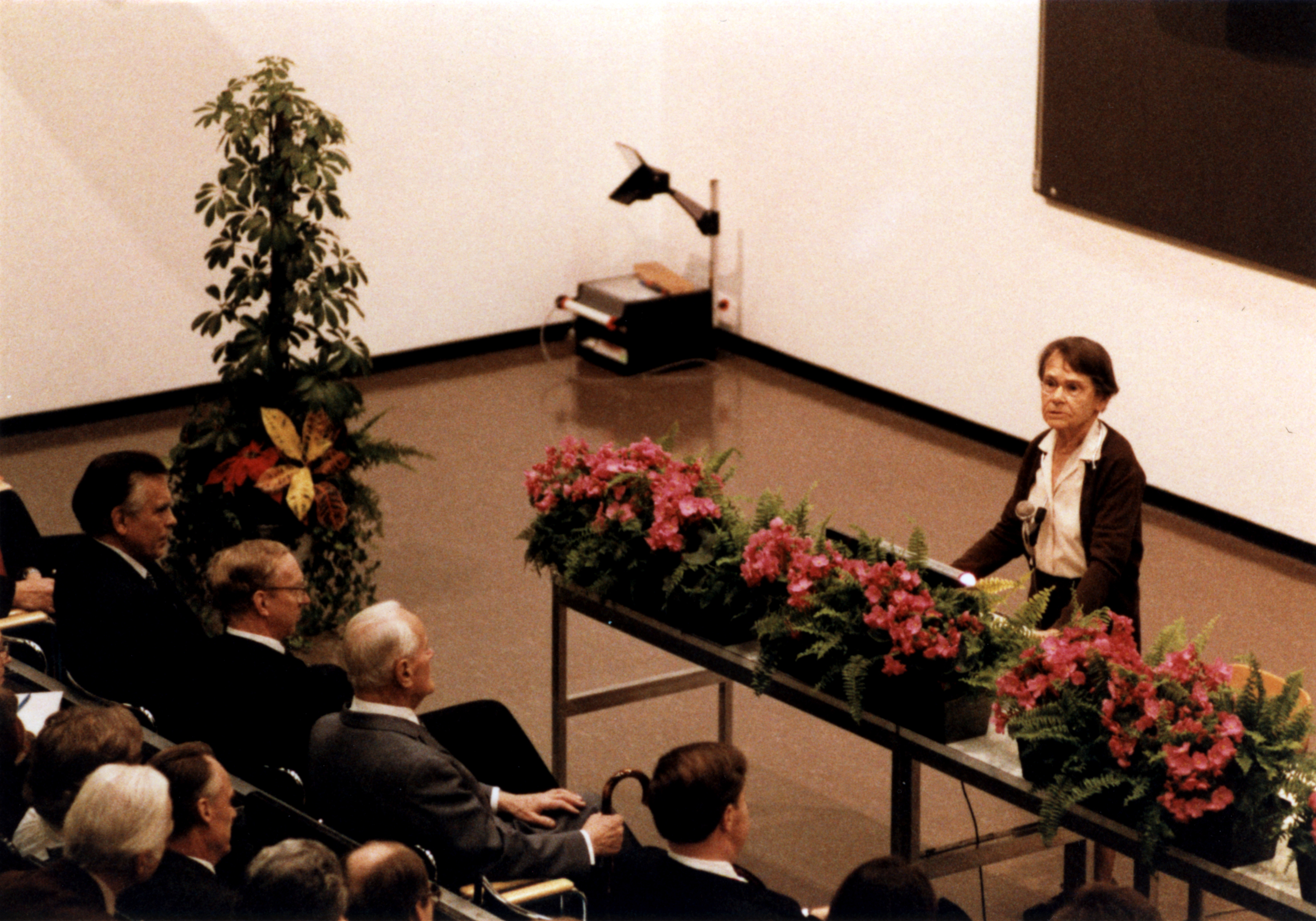 McClintock giving her Nobel Lecture at Karolinska Institute in Stockholm during the week of the Nobel Prize ceremony.